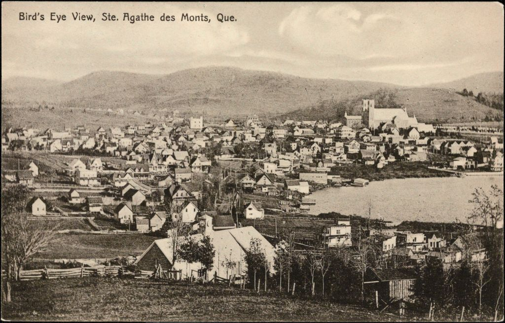 Bird's Eye View, Ste. Agathe des Monts, Que., carte postale, Novelty Manufacturing & Art Printing Co.